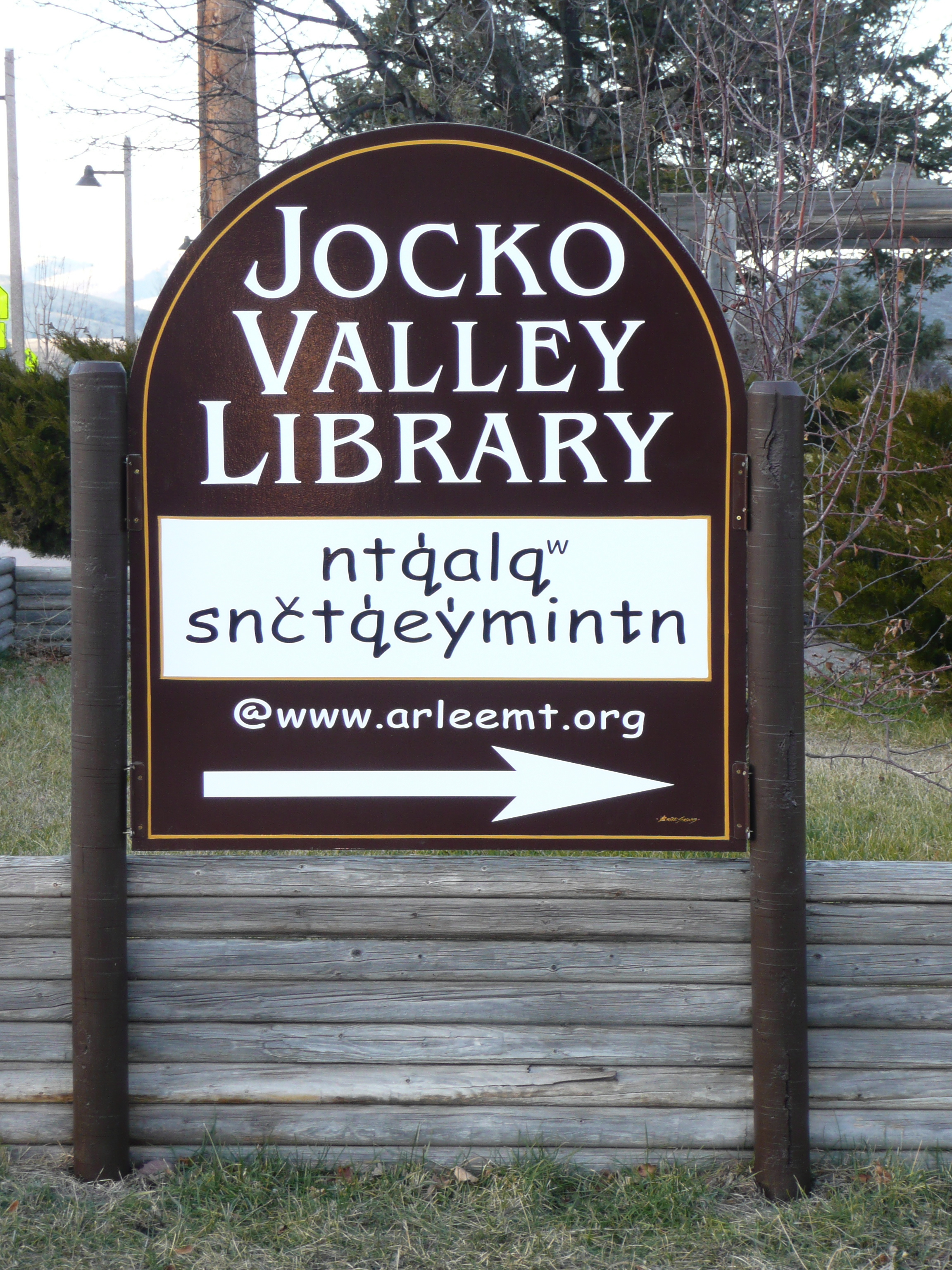 Jocko Valley Public Library, Arlee, Montana. Sign in English and Salish.